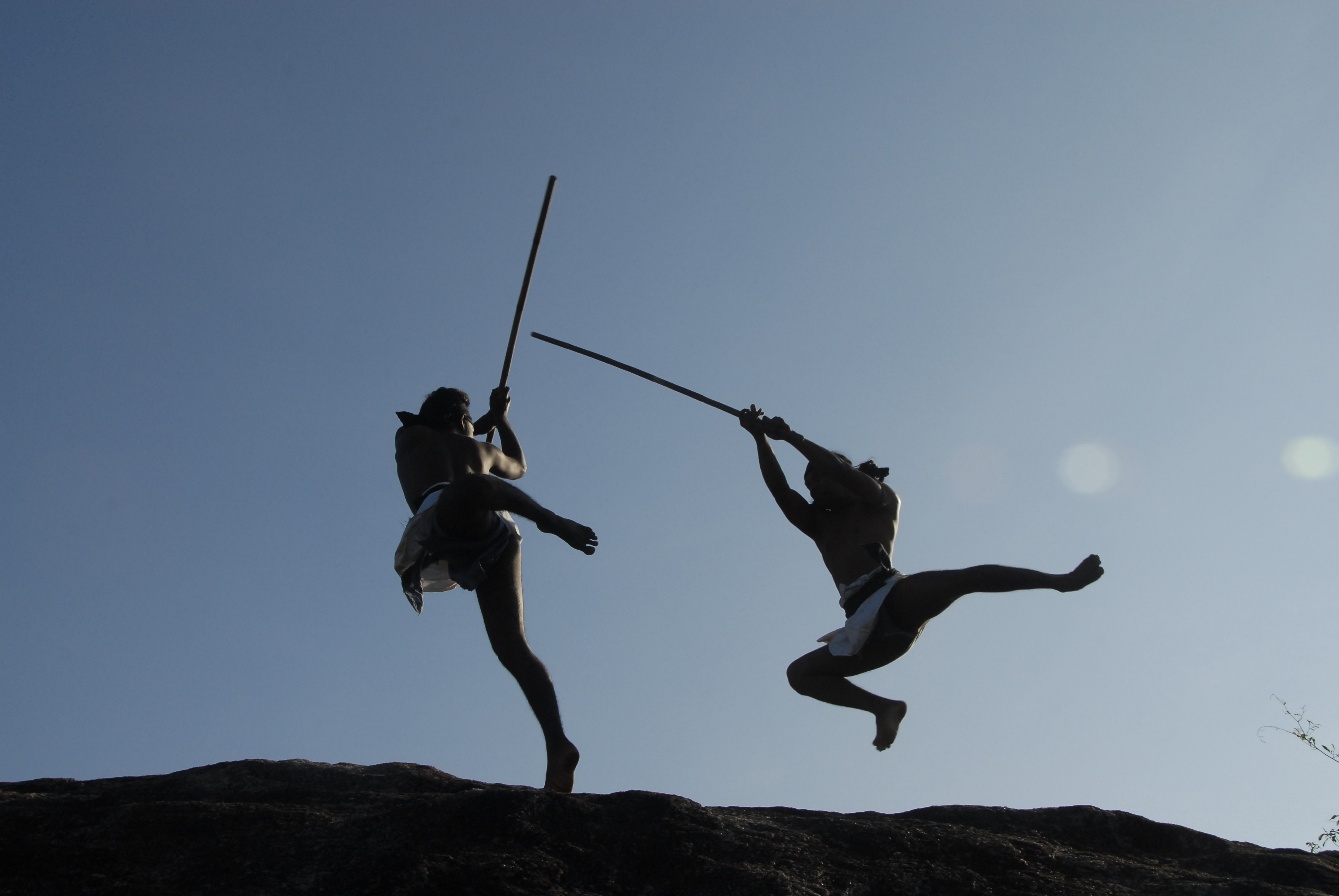 angampora fighters fighting with swords